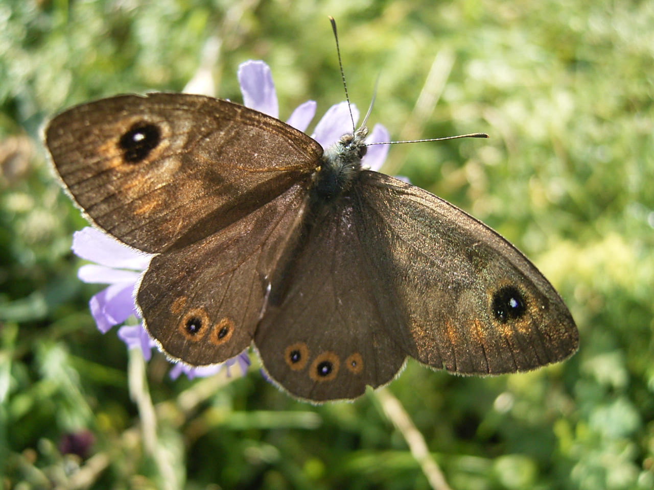 IMAGE SHOWS Lasiommata maera, the brown line on the backwing is missing! --Kulac 14:23, 23 October 2006 (UTC) Deze foto toont de Kleine argusvlinder. Ik nam de foto tijdens een vakantie in Zuid-beieren, op camping Am Isarhorn, bij Mittenwald, of tijdens een van de wandelingen in de omgeving. This photo shows the butterfly Lasiommata petropolitana. I took the picture iduring our holiday in south Bayern, near the Austrian border, on camping Am Isarhorn or during one of our walks in the woods and mountains.